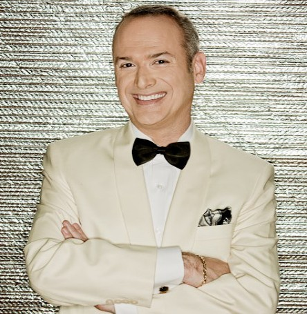 Publicity photo for one of Ken's concerts.